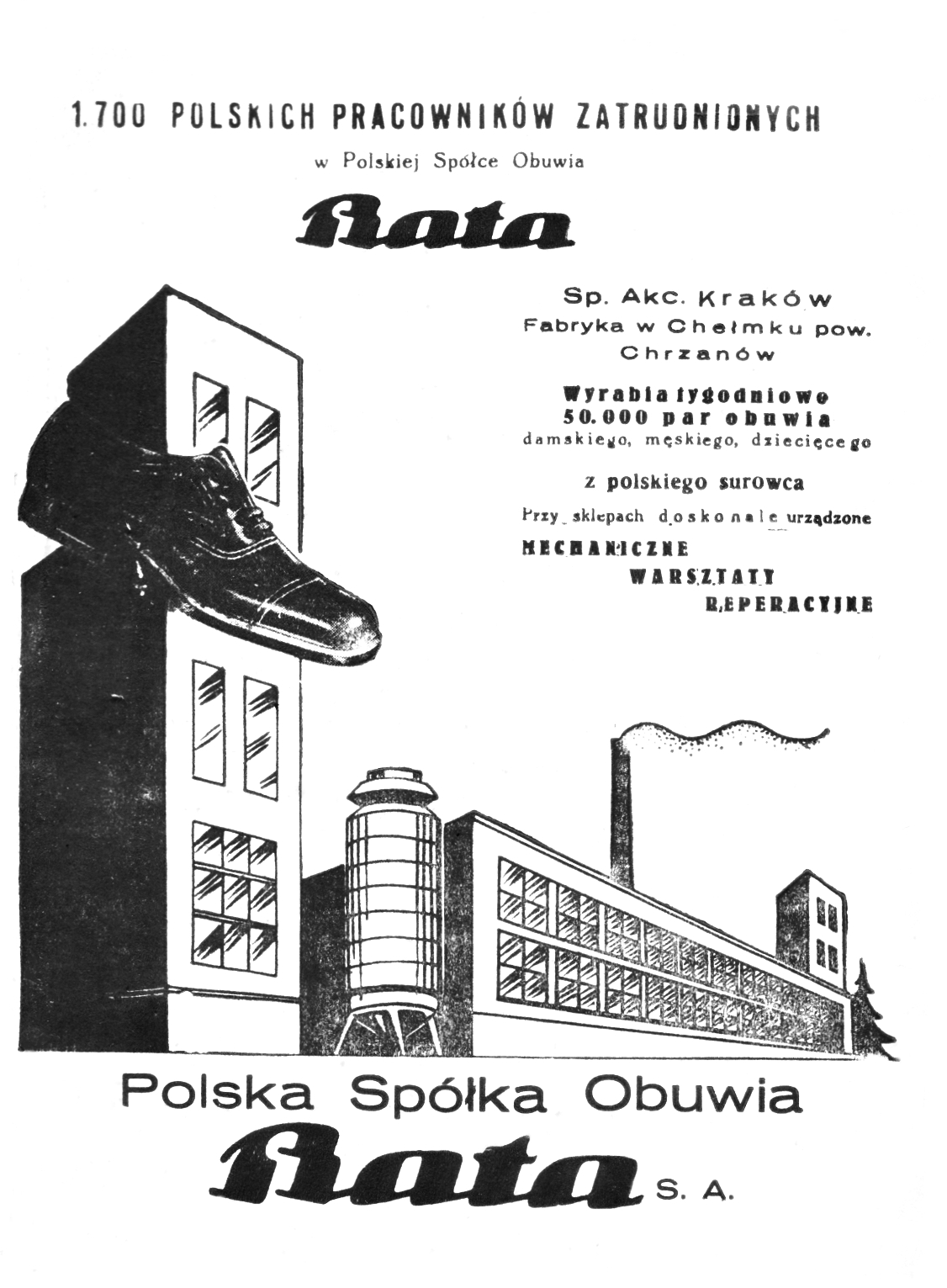 The advertisement of Bata shoe company.